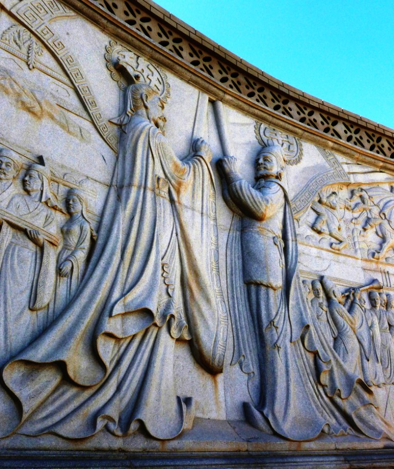 This mural is at a new memorial to Ban Chao in Kashgar